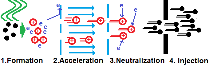 This picture lays out one way Neutral Beam Injection can be done. This is laid out in a four step process. (1) First, plasma is formed by microwaving (also known as RF heating) gas. (2) Next, the plasma is accelerated across a voltage drop. As ions fall down the voltage drop they are heated, while the electric field does work, physical work, on the ions heating them to fusion conditions. (3) After this the ions are re-neutralized using electrons. (4) Finally the neutral hot material is injected into the machine. Other information This picture lays out one way Neutral Beam Injection can be done. This is laid out in a four step process. (1) First, plasma is formed by microwaving (also known as RF heating) gas. (2) Next, the plasma is accelerated across a voltage drop. As ions fall down the voltage drop they are heated, while the electric field does work, physical work, on the ions heating them to fusion conditions. (3) After this the ions are re-neutralized using electrons. (4) Finally the neutral hot material is injected into the machine.